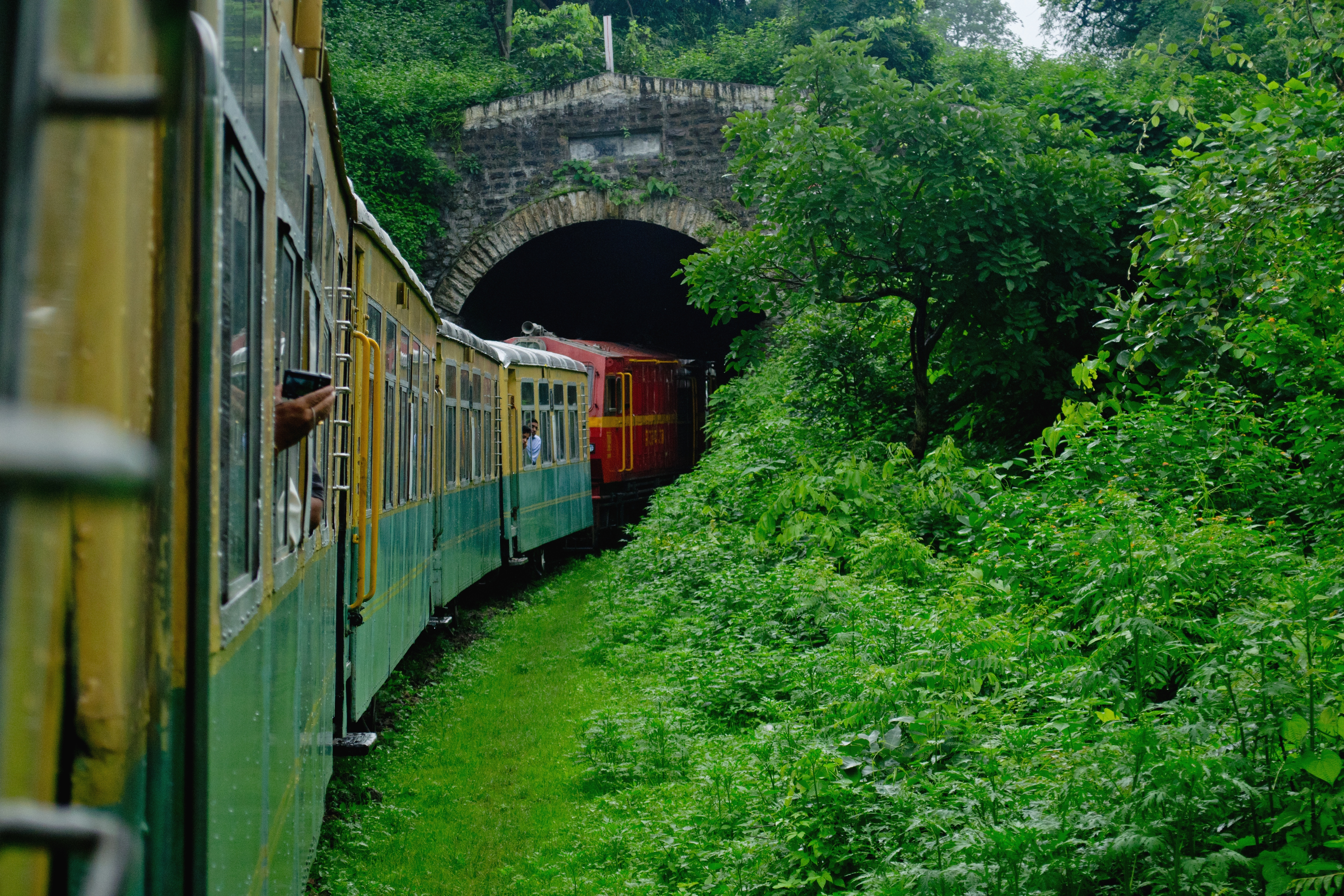 Himalayan Queen train entering a tunnel